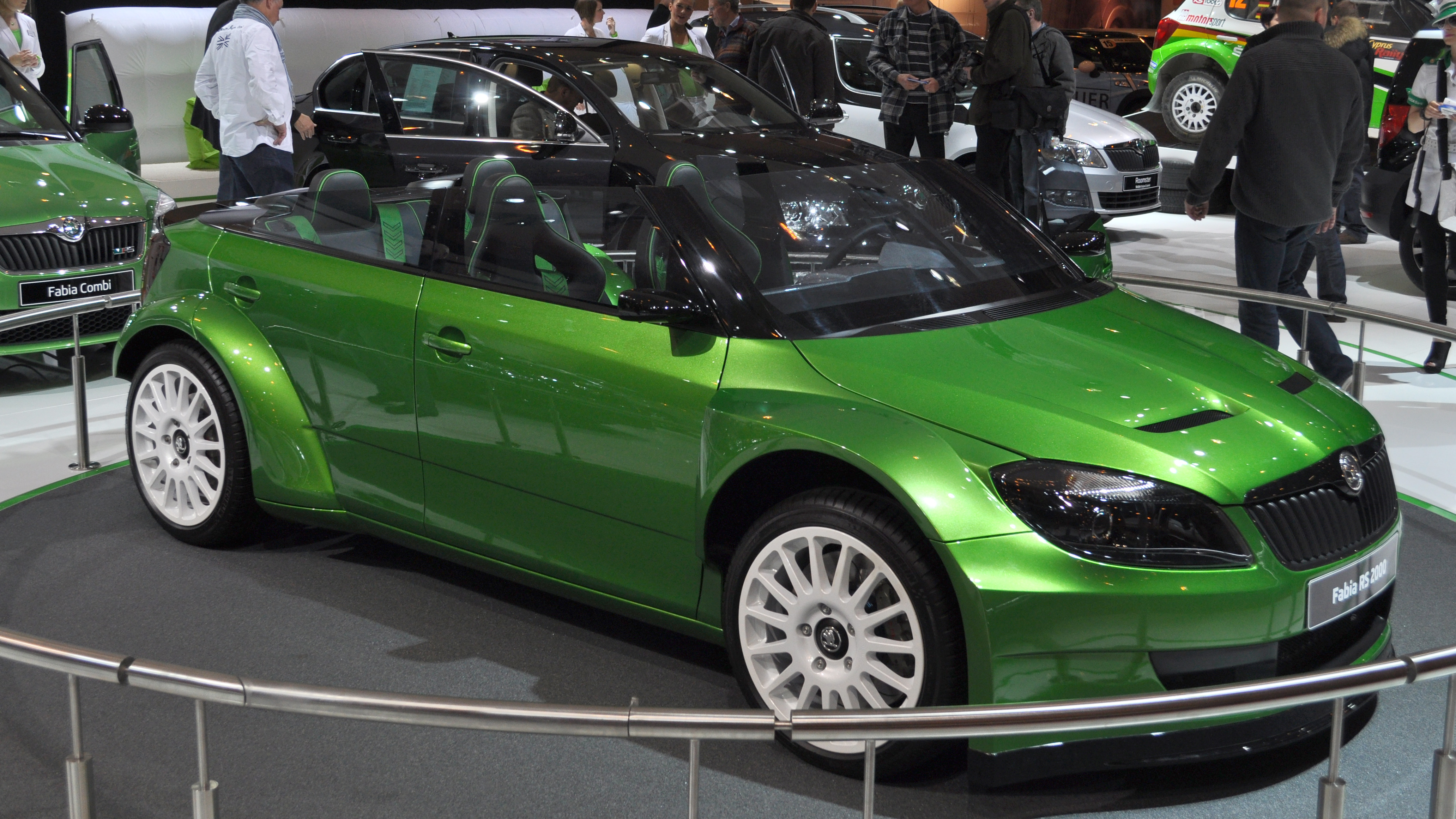 Skoda Fabia II RS2000 Cabrio at the Essen Motor Show 2011